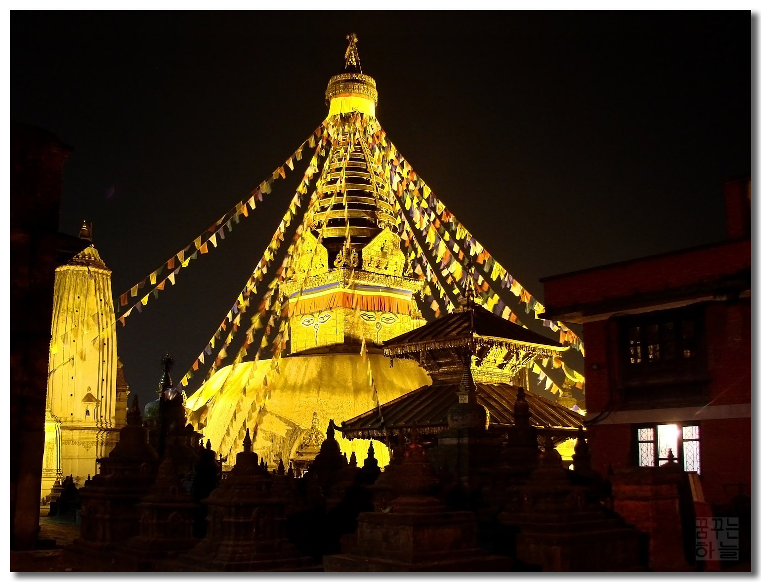 Swayambhu stupa on the eve of Laxmi Puja (लक्ष्मी पूजा ) third day of Tihar (Dipawali). A group of photographers went there to celebrate the festival of light. :) The Eyes! Explored!